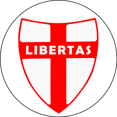 Old logo of Christian Democracy